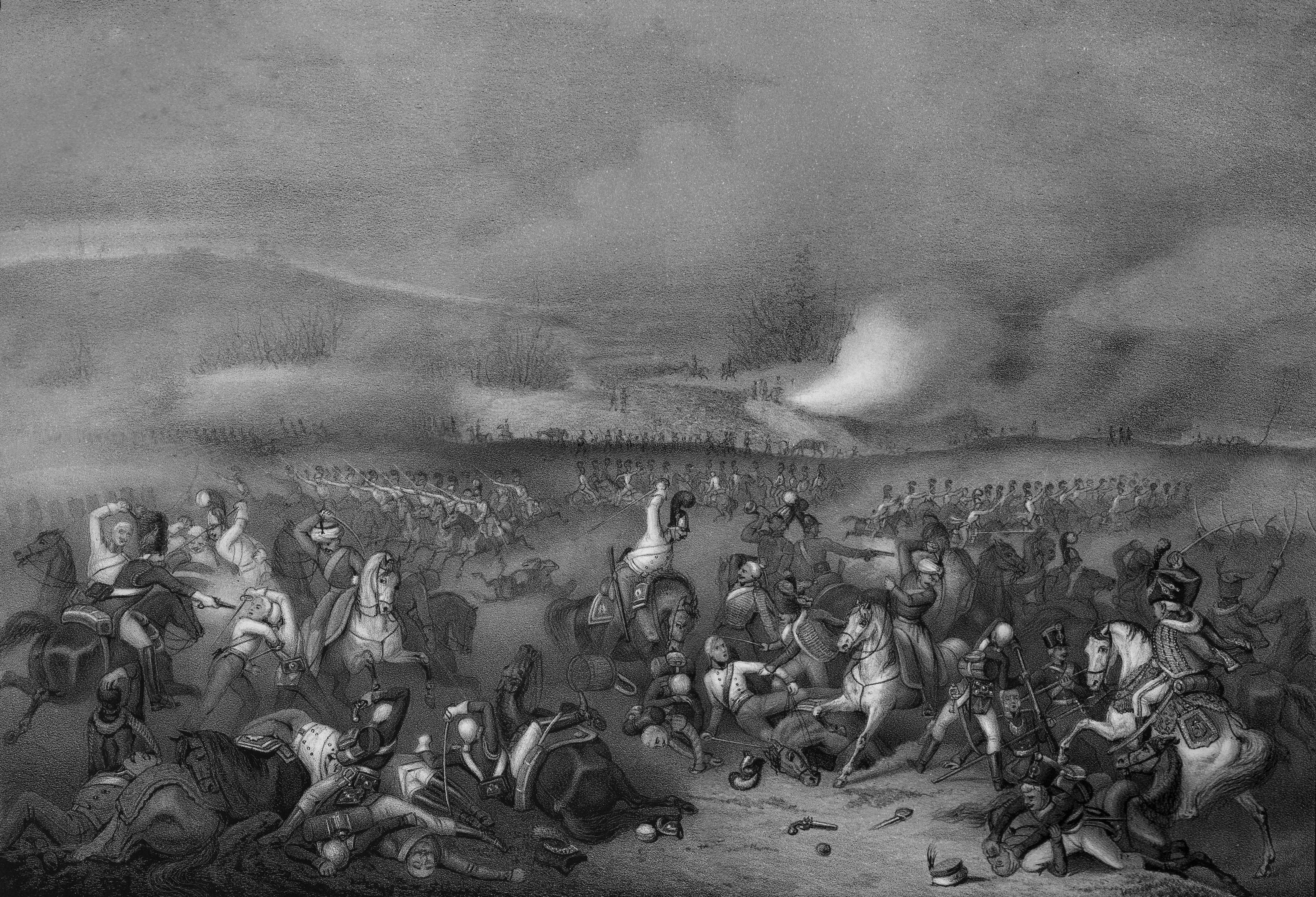 Russian lithograph of the battle.